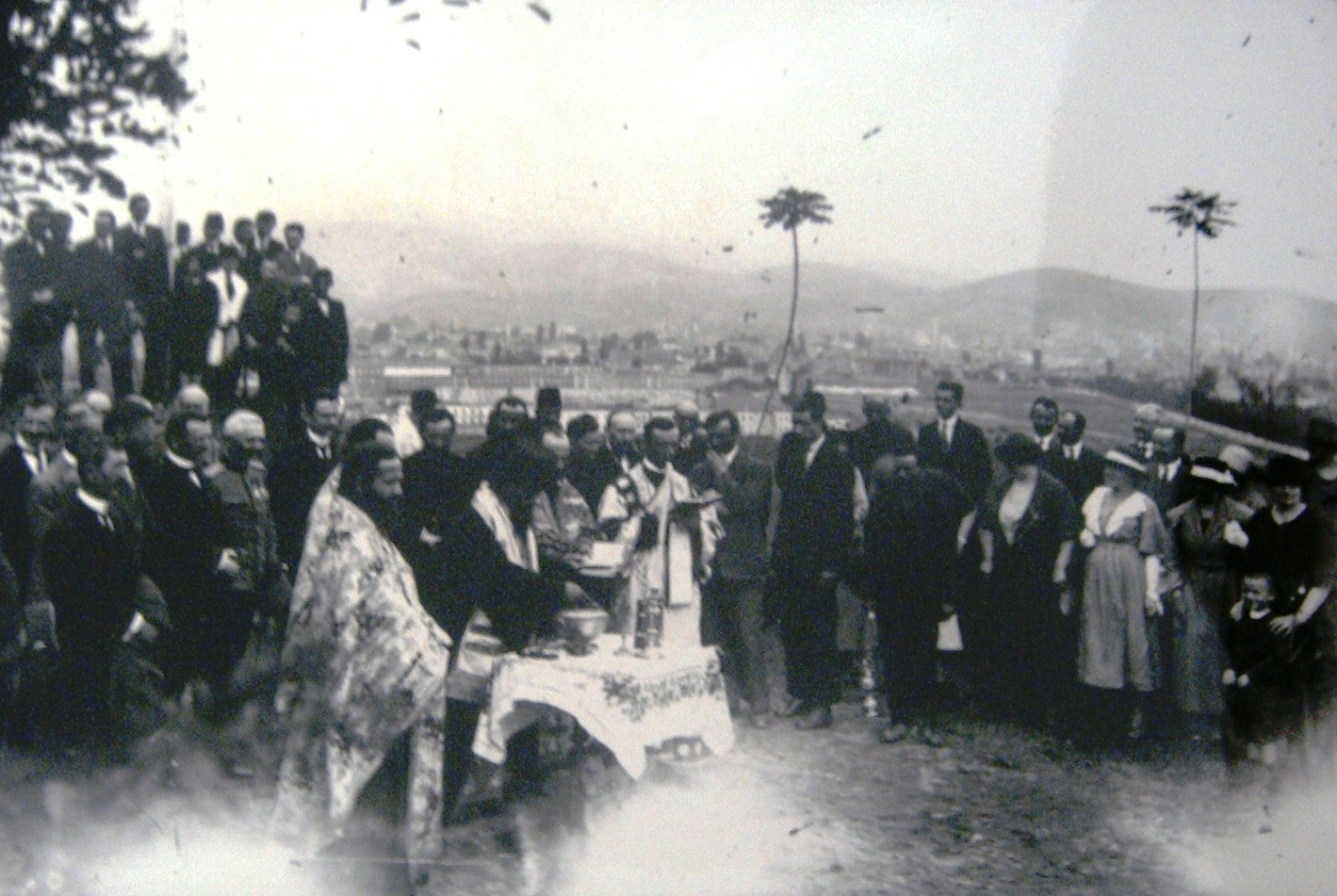 Renaming Tumbe Cafe in Aleksandrovo Brdo. Bitola, 1918-1941 (Damaged glass plate) This media file is produced by Wikipedian in Residence in Category:Wikipedian in Residence at DARM in 2016.